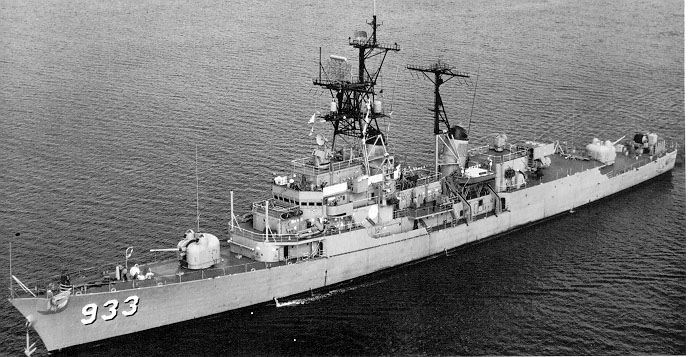 The U.S. Navy destroyer USS Barry (DD-933) in 1971.